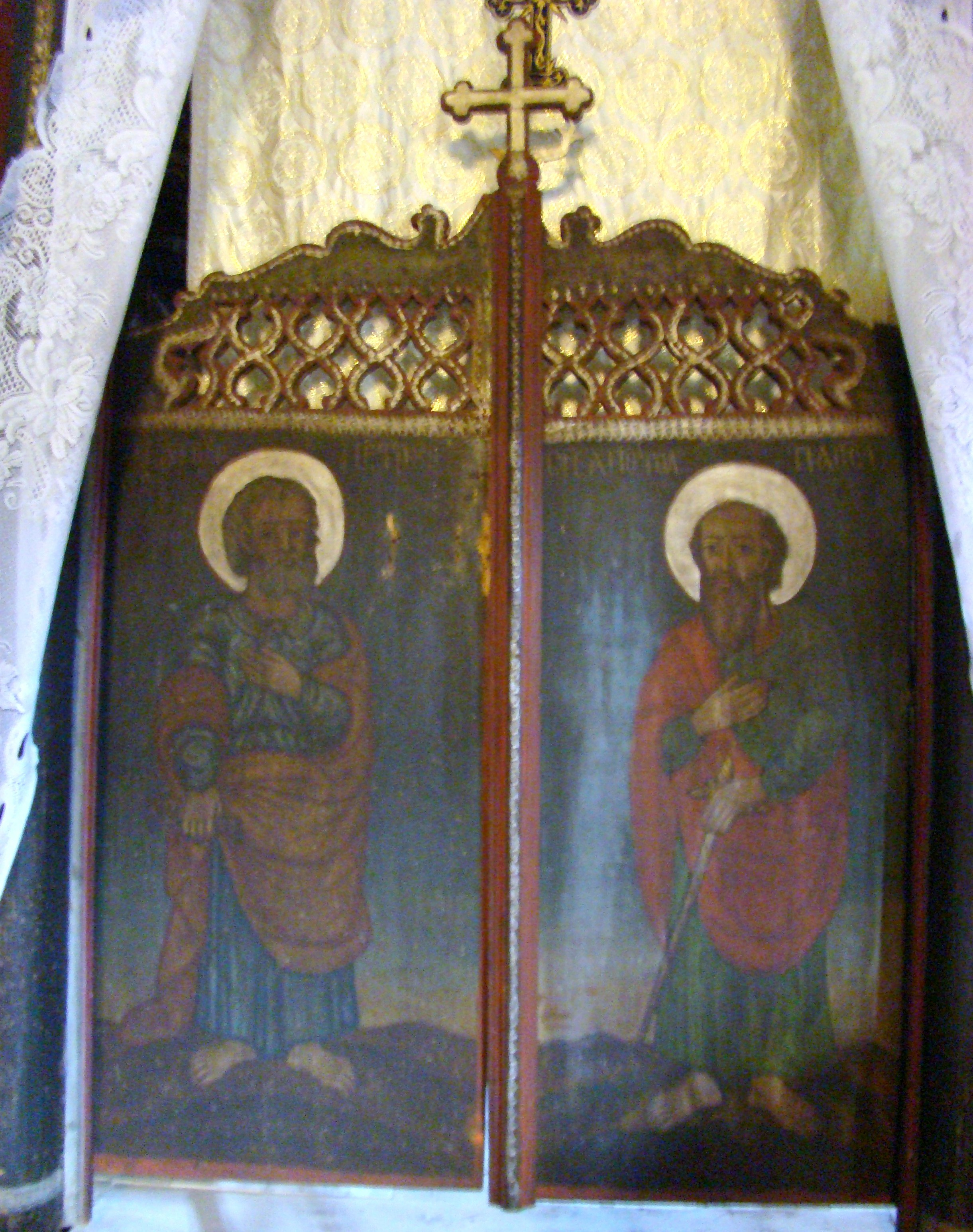 Wooden church in Roșia Nouă, Arad county, Romania